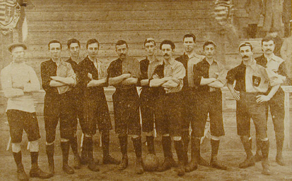 Vienna Cricket and Football-Club, 1897